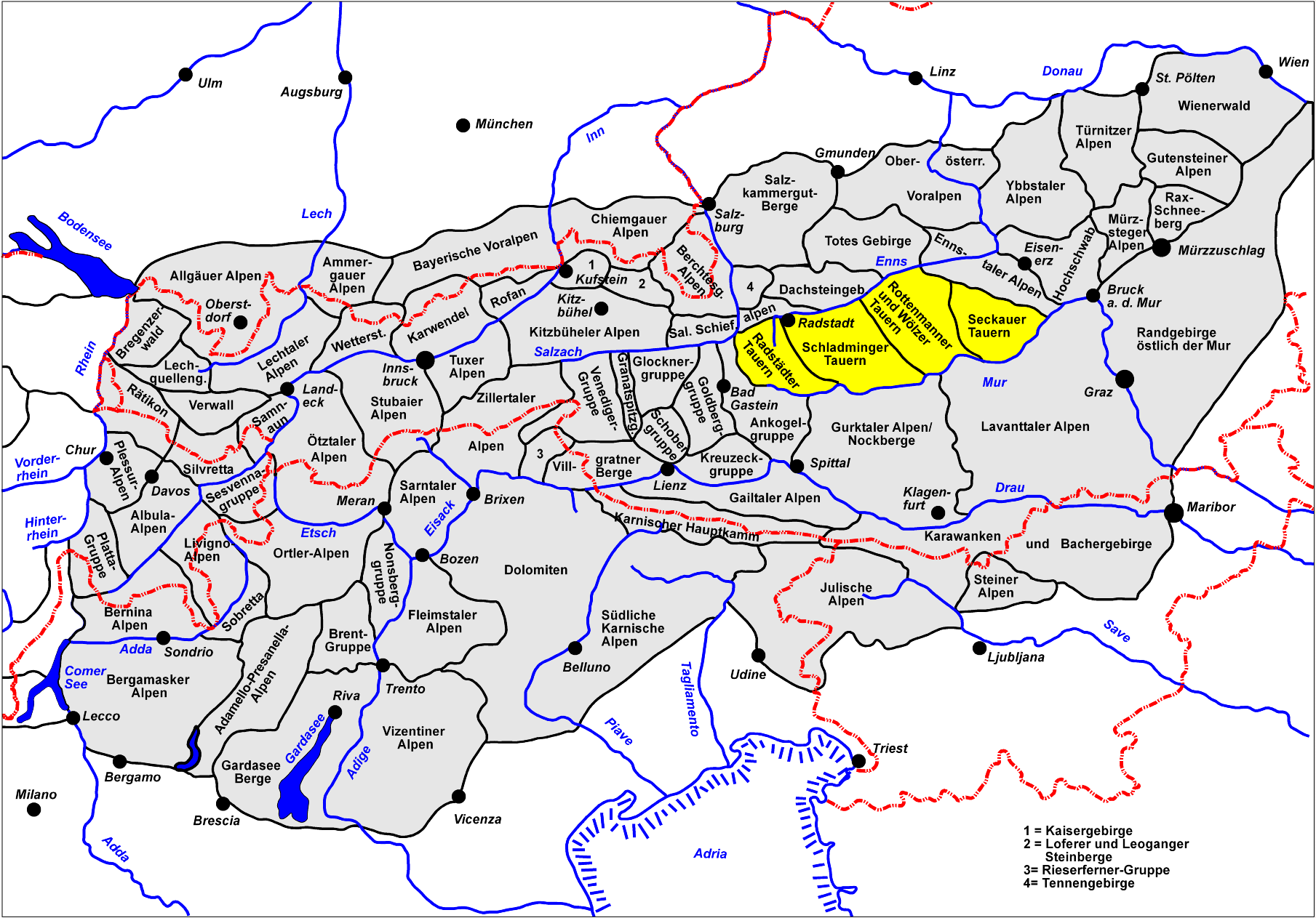 Eastern Alps (light grey). Niedere Tauern (yellow). Classification after a agreement of the Alpine Associations 1984, based on the "Moriggl-Einteilung" (1924).